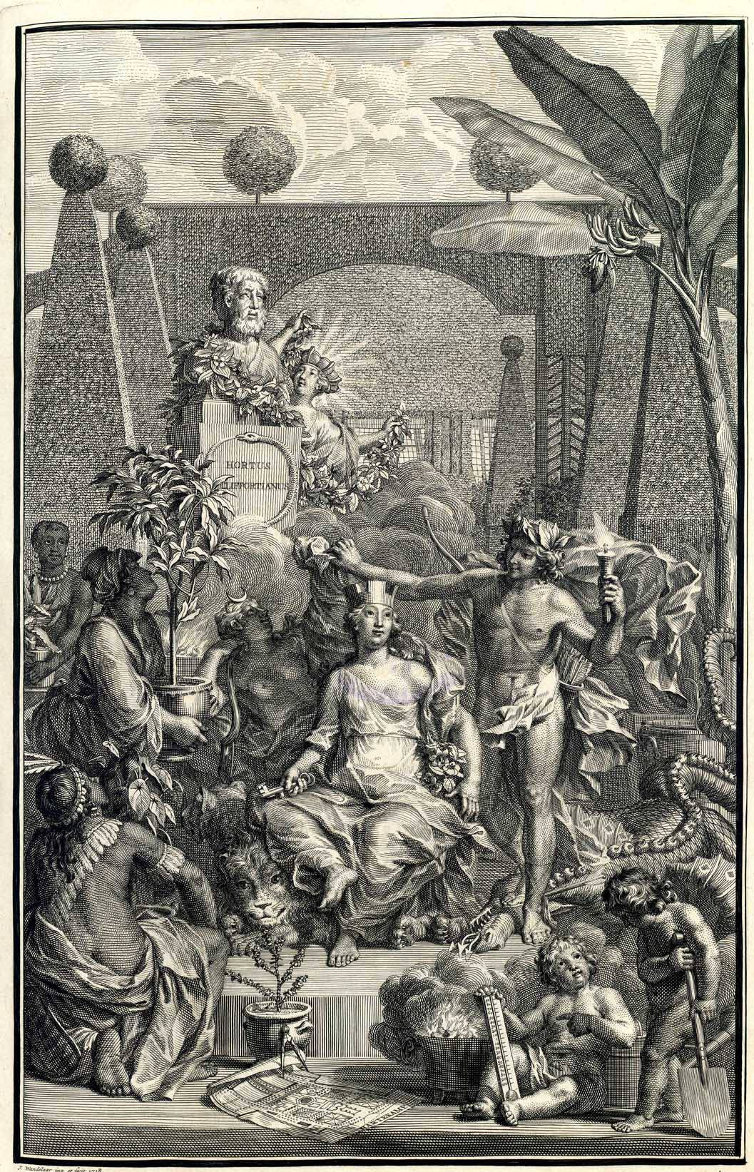 Frontispiece by Jan Wandelaar (1690-1759) of Linnaeus, C. (1738), Hortus Cliffortianus. The plate shows Mother Earth, seated on a lion and lioness, holding the keys to the garden. At her feet are a pot with Cliffortia and a plan of the Hartekamp garden. To the left a negress brings her an Aloe from Africa, an Arabian woman offers Coffea arabica from Asia and a befeathered American indian brings Hernandia from America. On a pedestal is a bust, possibly portraying George Clifford. On the right is a banana in flower and fruit. A young god Apollo, with the head of Linnaeus, steps forward, bringing light in his left hand and with his right hand casting aside the shroud of darkness around the goddess. Underfoot he tramples the dragon of falsehood, a reference to the counterfeit Hydra at Hamburg exposed as a fraud by Linnaeus while on his way to Holland. (desription summarized from Stearn, W.T., (1957), in Ray Society, Species Plantarum, A facsimile of the first edition: 46)